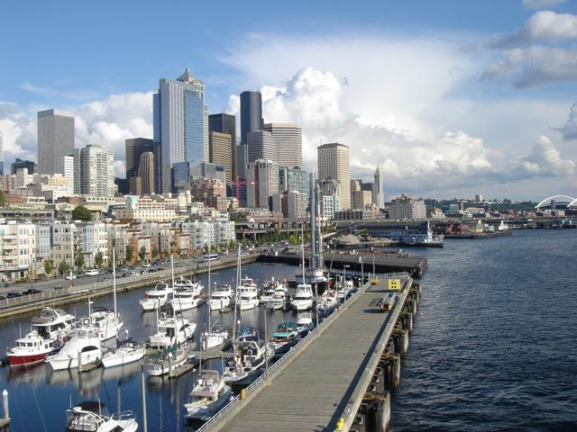 Seattle Waterfront as seen from deck of cruise ship at Bell StreetPier